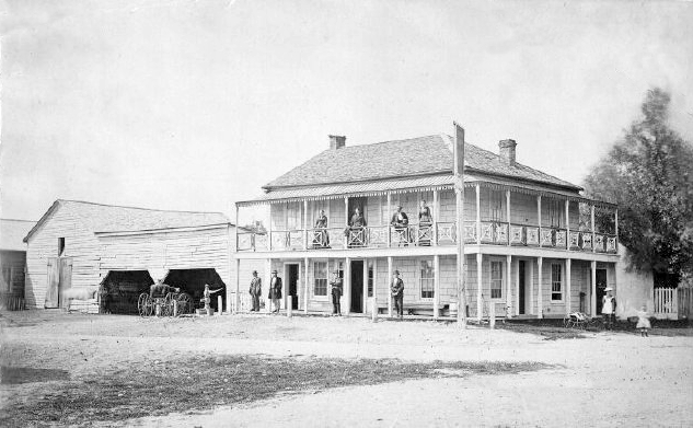 Hotel in Centre Inn, Ontario, operated by Mathias McCann.